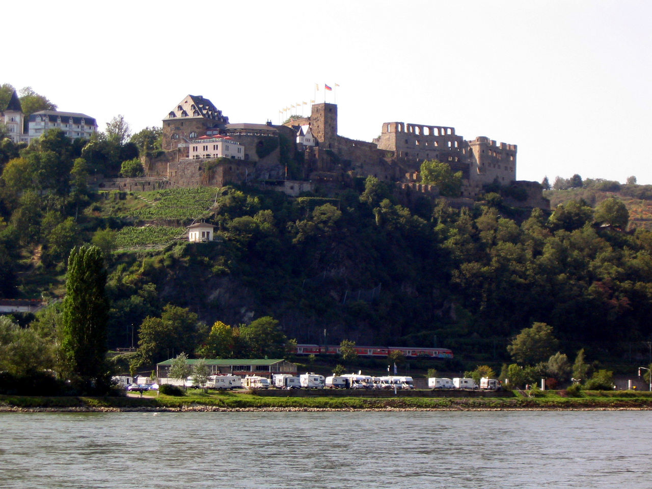 A photo of Rheinfels Castle taken from the right (opposite) bank of the Rhein River in Sankt Goarshausen Germany.